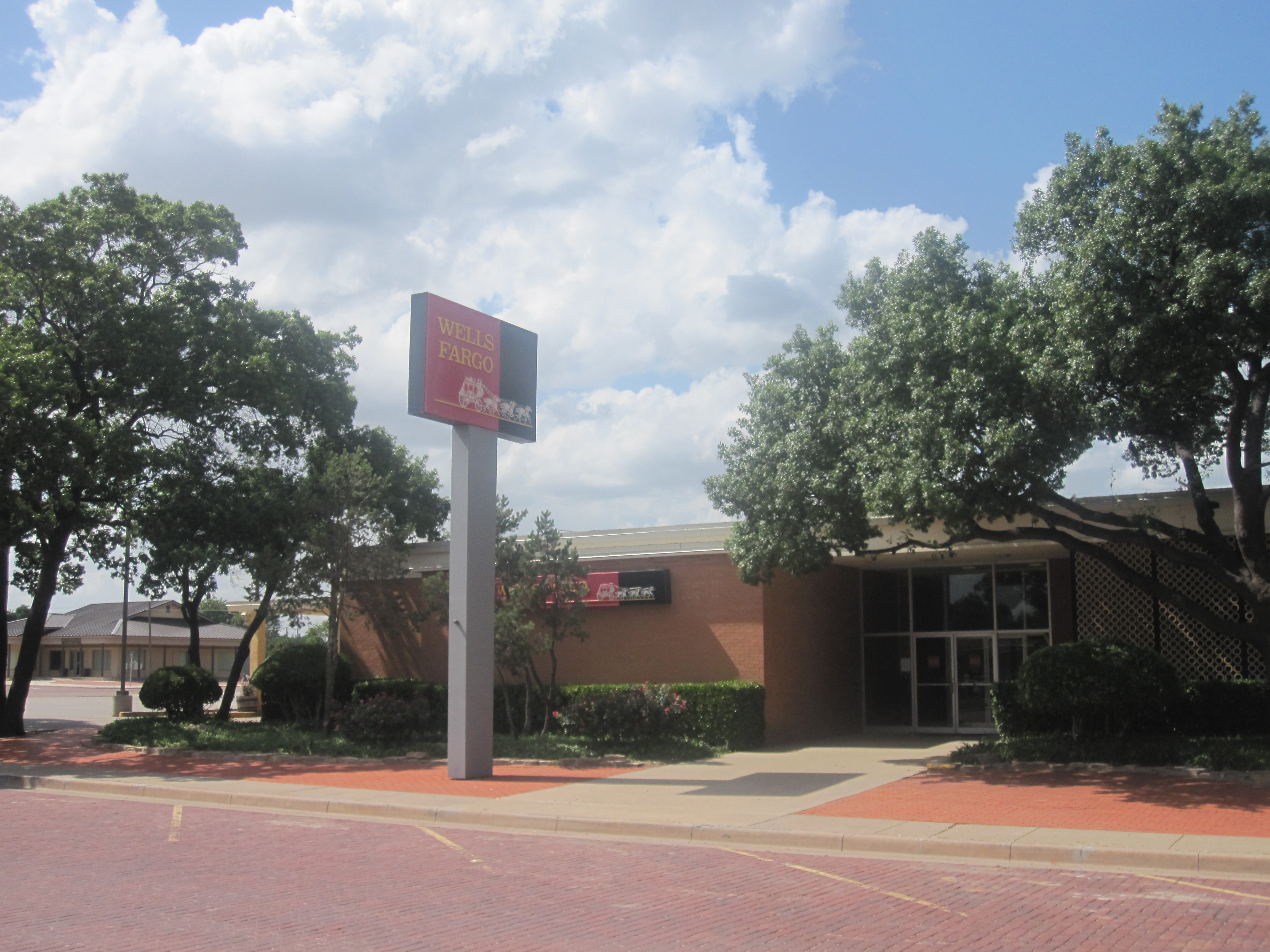 I took photo with Canon camera in Post, TX.